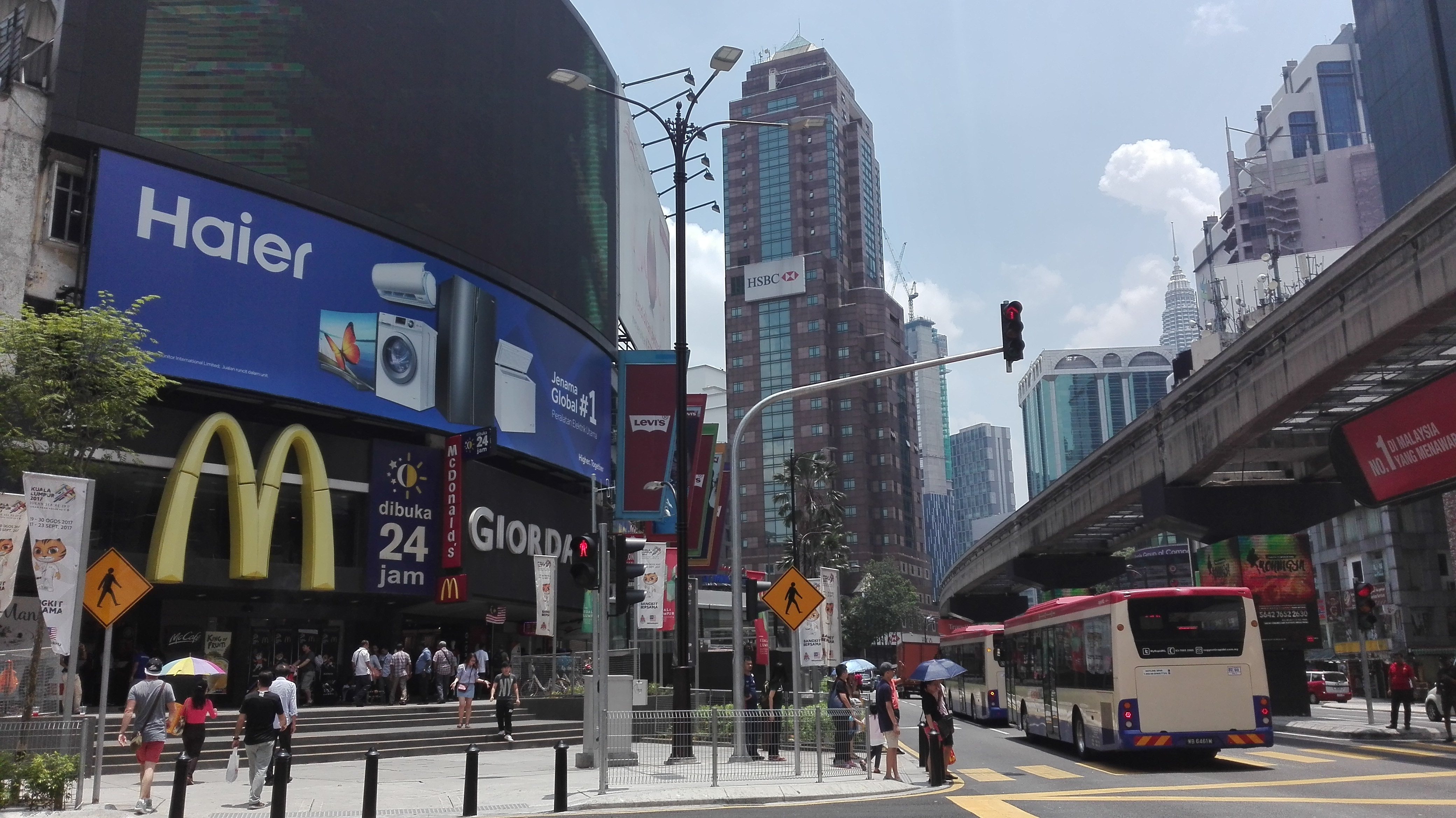 At the iconic intersection of Jalan Bukit Bintang and Jalan Sultan Ismail; the heart of Bukit Bintang, Malaysia's premier shopping street. The Petronas Twin Towers can be seen behind the buildings on the right.